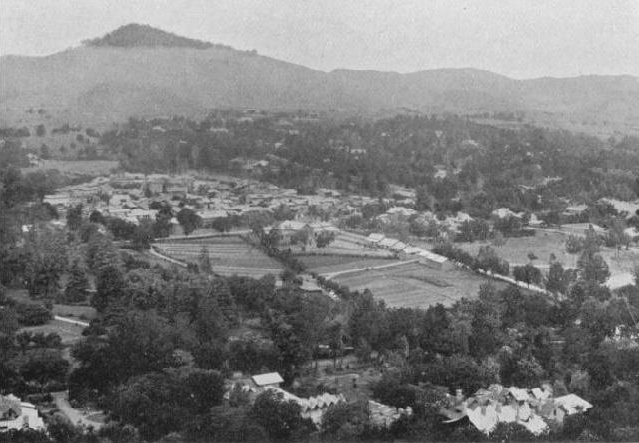 Usman Shahzada, Original image caption read: Abbottabad south view (brigade circular hill in the background) 1907.